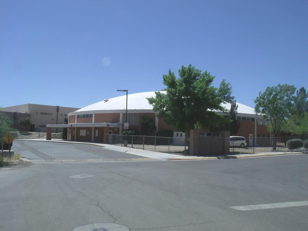 Wickenburg High School and Annex located at 250 Tegner Street in Wickenburg , Arizona.